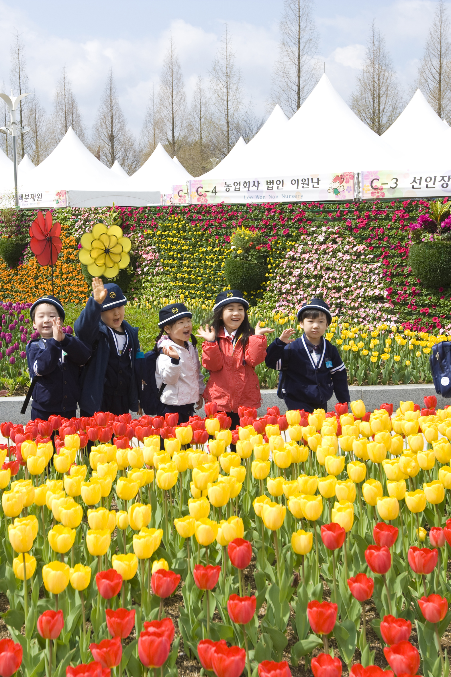 Goyang City is back again with its famous flower festival! Just about an hour from Seoul, Goyang City in Gyeonggi Province is holding its 15th Goyang Korea Flower Show from April 23 to May 9 2010. Both indoor and outdoor exhibition areas will offer participatory activities, contests, displays and shows. Click here for more information.